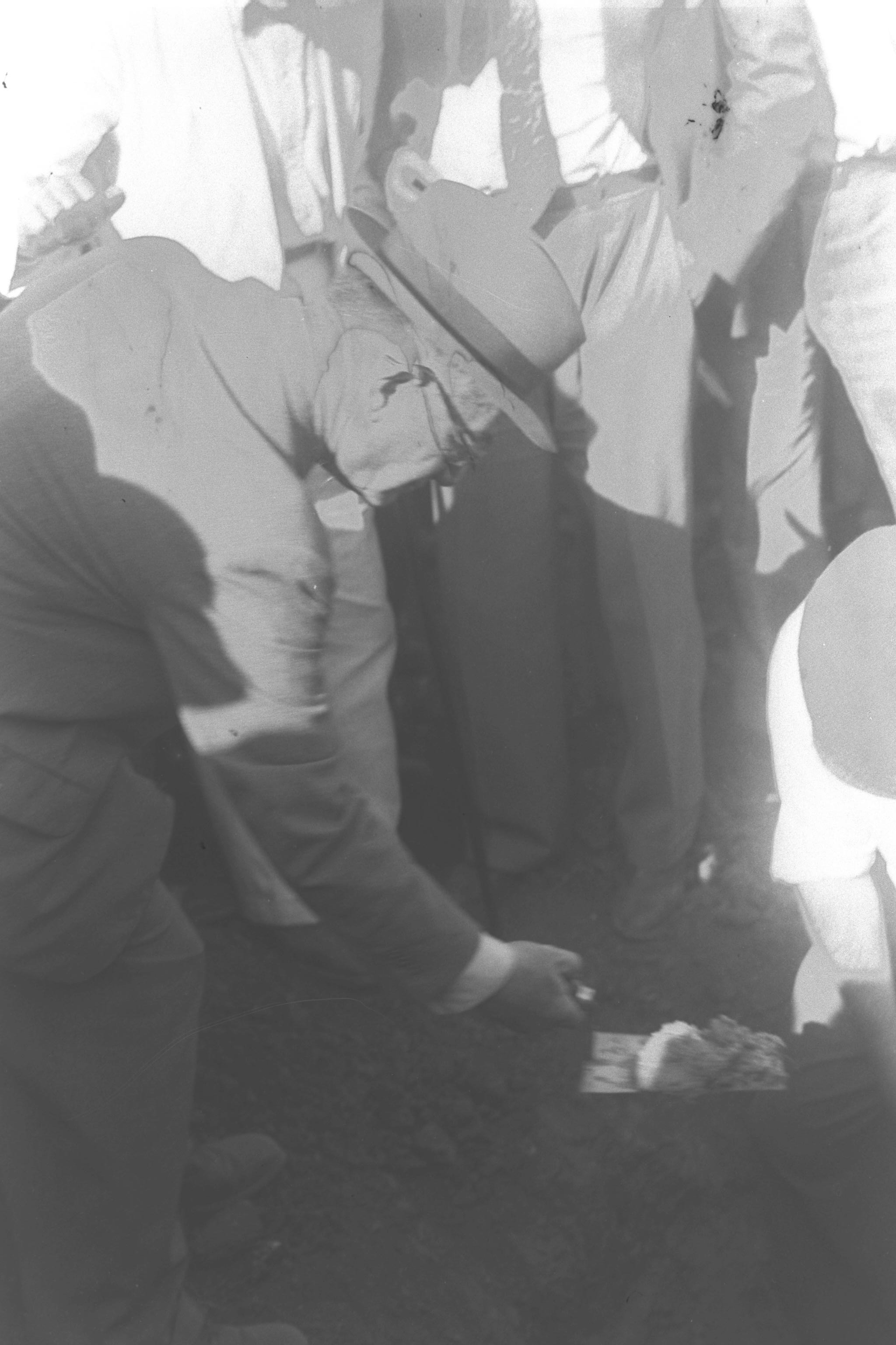 DR. ARTHUR RUPPIN LAYING THE FOUNDATION STONE OF KIBBUTZ HULDA. ד"ר ארתור רופין מניח אבן פינה בטקס העלייה לקרקע של קיבוץ חולדה.